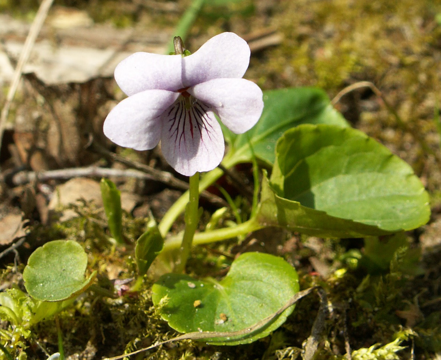 Viola palustris. Glowacz reserve, Poland NW.